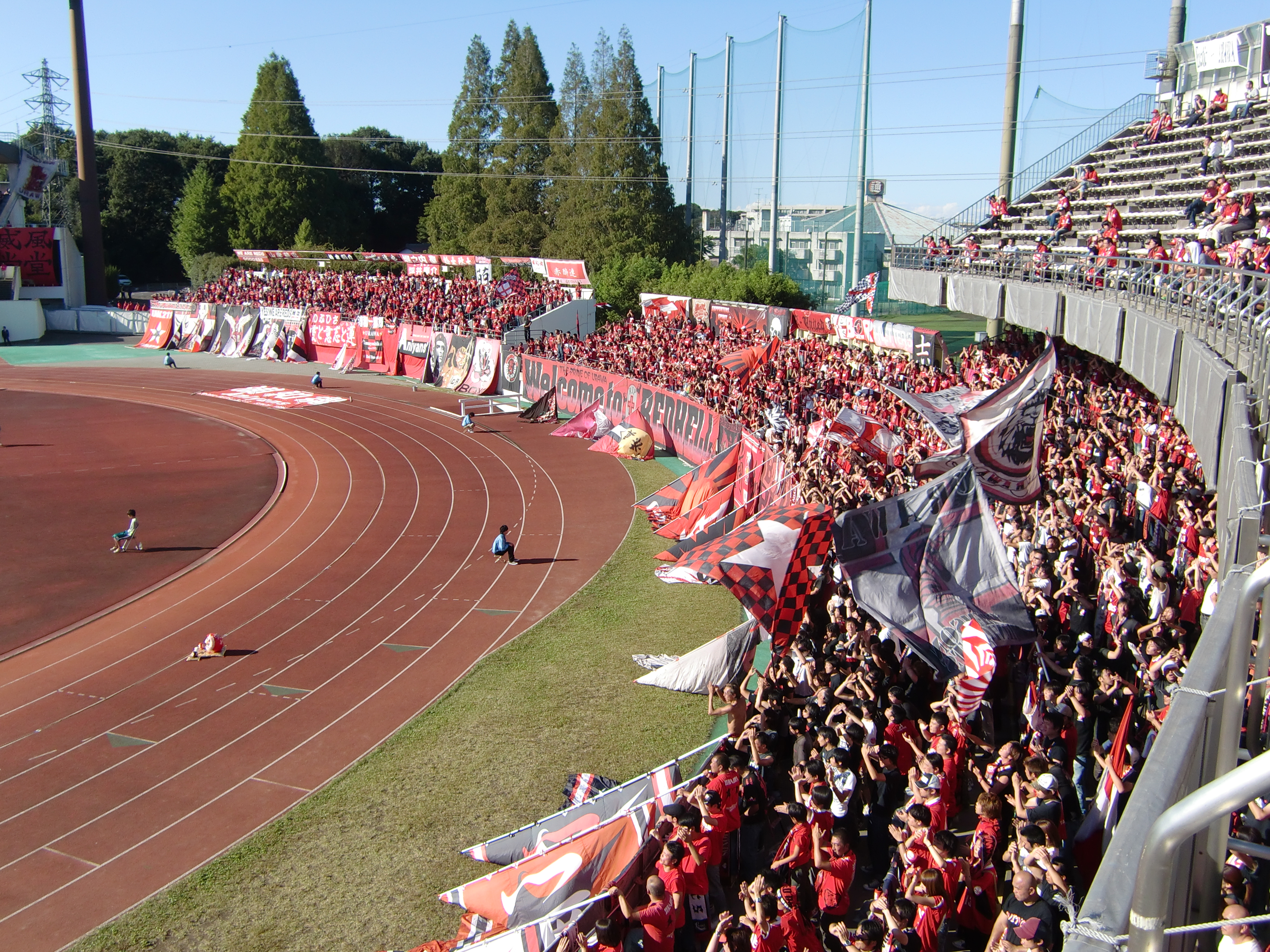 Saitama-shi Komaba stadium.